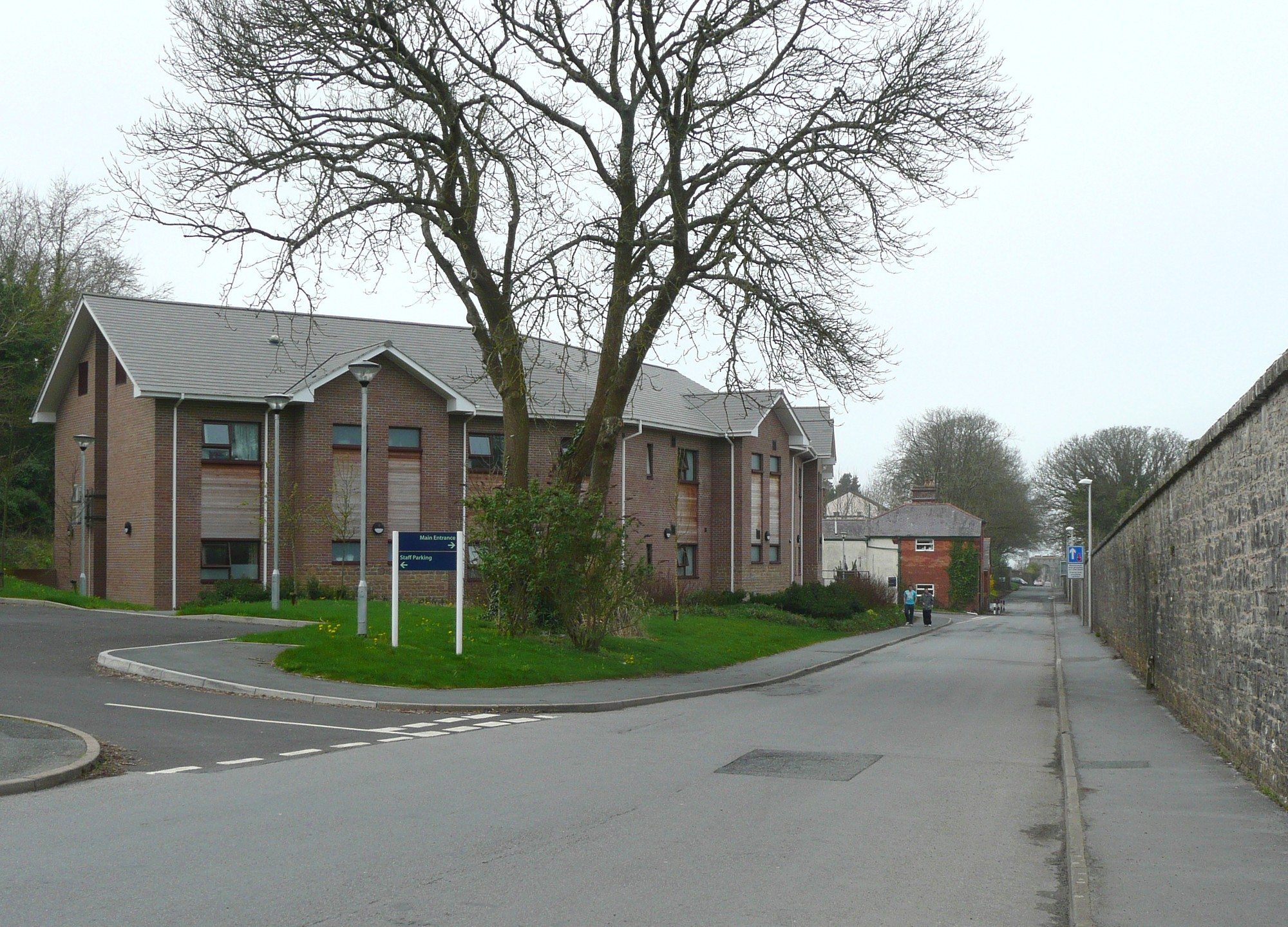 Fort Road, Pembroke Dock